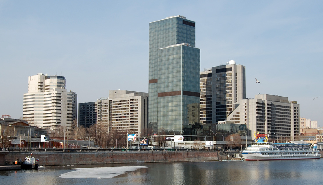 International Trade Center (Moscow)